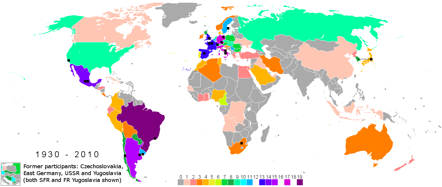 The map shows the number of final round participation of the respective countries with the FIFA world championship (colors indicated as down) and the host countries (black squares). 19 — Brazil 18 = no country 17 — Italy • (German Empire+West Germany+Germany 2+10+5) 16 = no country 15 — Argentina 14 — Mexico 13 — England • France • Spain 12 = no country 11 — Belgium • Sweden • Uruguay • • (SFR Yugoslavia+FR Yugoslavia/Serbia and Montenegro+Serbia 8+2+1) 10 — (SFR Yugoslavia+FR Yugoslavia/Serbia and Montenegro 8+2) • (West Germany 10) 9 — United States • Hungary • Netherlands • Switzerland • • (USSR+Russia 7+2) • (Czechoslovakia+Czech Republic 8+1) • (Czechoslovakia+Slovakia 8+1) 8 — Chile • Korea Republic • Paraguay • Scotland • • (Czechoslovakia 8) • (SFR Yugoslavia 8) 7 — Austria • Bulgaria • Poland • Romania • (USSR 7) 6 — Cameroon 5 — Portugal 4 — Saudi Arabia ...... 3 — Australia ...... 2 — Turkey ...... 1 — China ...... never qualified to the final round v t e World Cup maps Hosts • Winners • Best results (blank) Appearances until: 2006 – 2010 (enwiki) – 2014 (enwiki) – 2018 (enwiki) 1930 | 1934 | 1938 | 1950 | 1954 | 1958 | 1962 | 1966 | 1970 | 1974 | 1978 | 1982 | 1986 | 1990 | 1994 | 1998 | 2002 | 2006 | 2010 | 2014 | 2018 Qualification 1934 | 1938 | 1950 | 1954 | 1958 | 1962 | 1966 | 1970 | 1974 | 1978 | 1982 | 1986 | 1990 | 1994 | 1998 | 2002 | 2006 | 2010 | 2014 | 2018